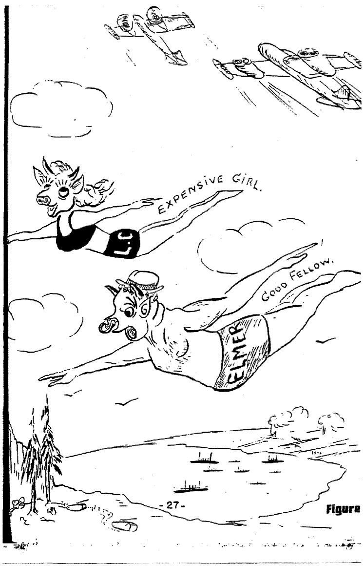 Humorous depiction of the MK2, ELMER, the “unattractive and clumsy” uranium hydride bomb, and the “expensive” L.C. "ELSIE", the MK8 water penetrating fission bomb.